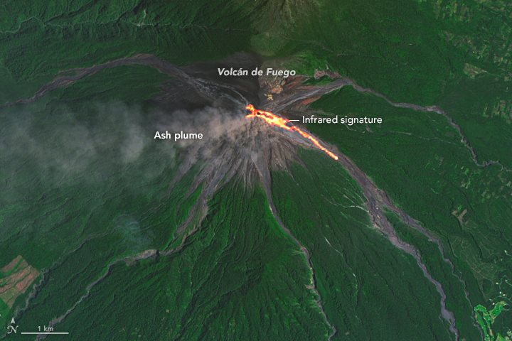 On September 7, 2016, the Operational Land Imager (OLI) on Landsat 8 captured this image of lava spilling down the slopes of Guatemala’s Volcán de Fuego, one of Central America’s most active volcanoes. According to reporting from the Instituto Nacional de Sismologia, Vulcanologia, Meteorologia, e Hidrologia (INSIVUMEH), the latest bout of activity began on September 4, when lava rose as high as 200 meters (650 feet) above Fuego’s crater rim. Plumes of ash have reached heights of about 850 meters (2,800 feet). The image is a composite of natural color (OLI bands 4-3-2) and shortwave Infrared (OLI band 7). Shortwave infrared light (SWIR) is invisible to the naked eye, but strong SWIR signals indicate increased temperatures. The volcano is located about 70 kilometers (40 miles) west of Guatemala City, Guatemala.